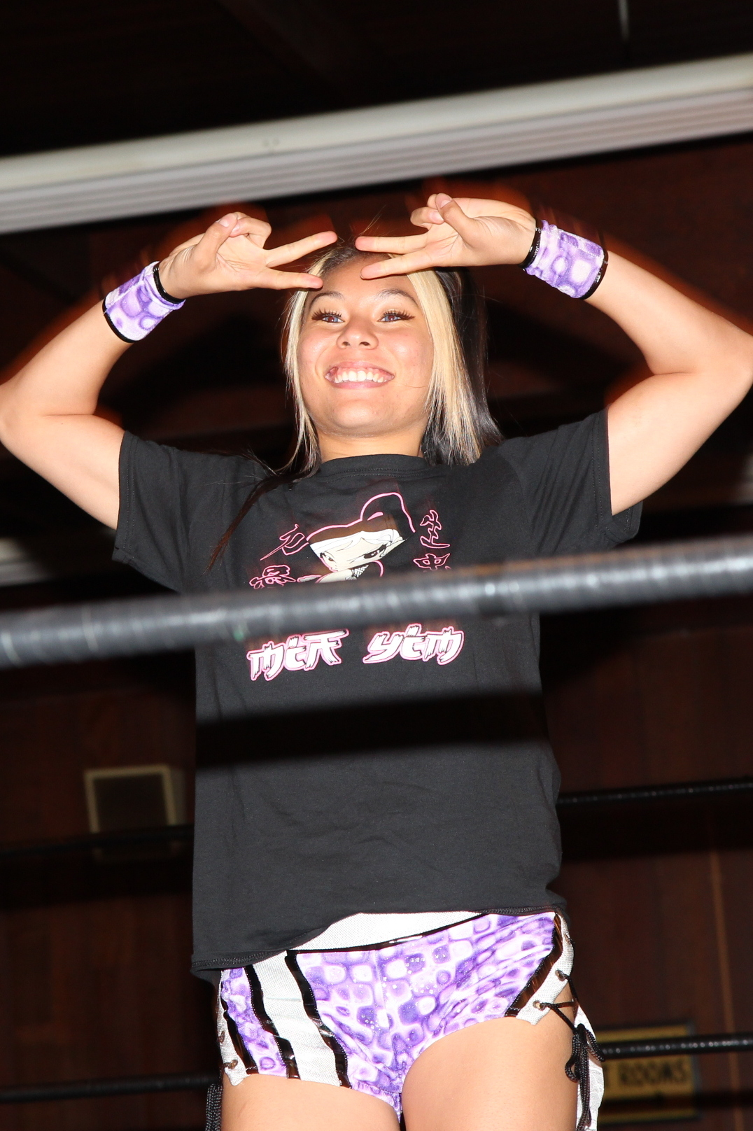 Mia Yim at Shimmer 63 in April 2013. Cropped from original.